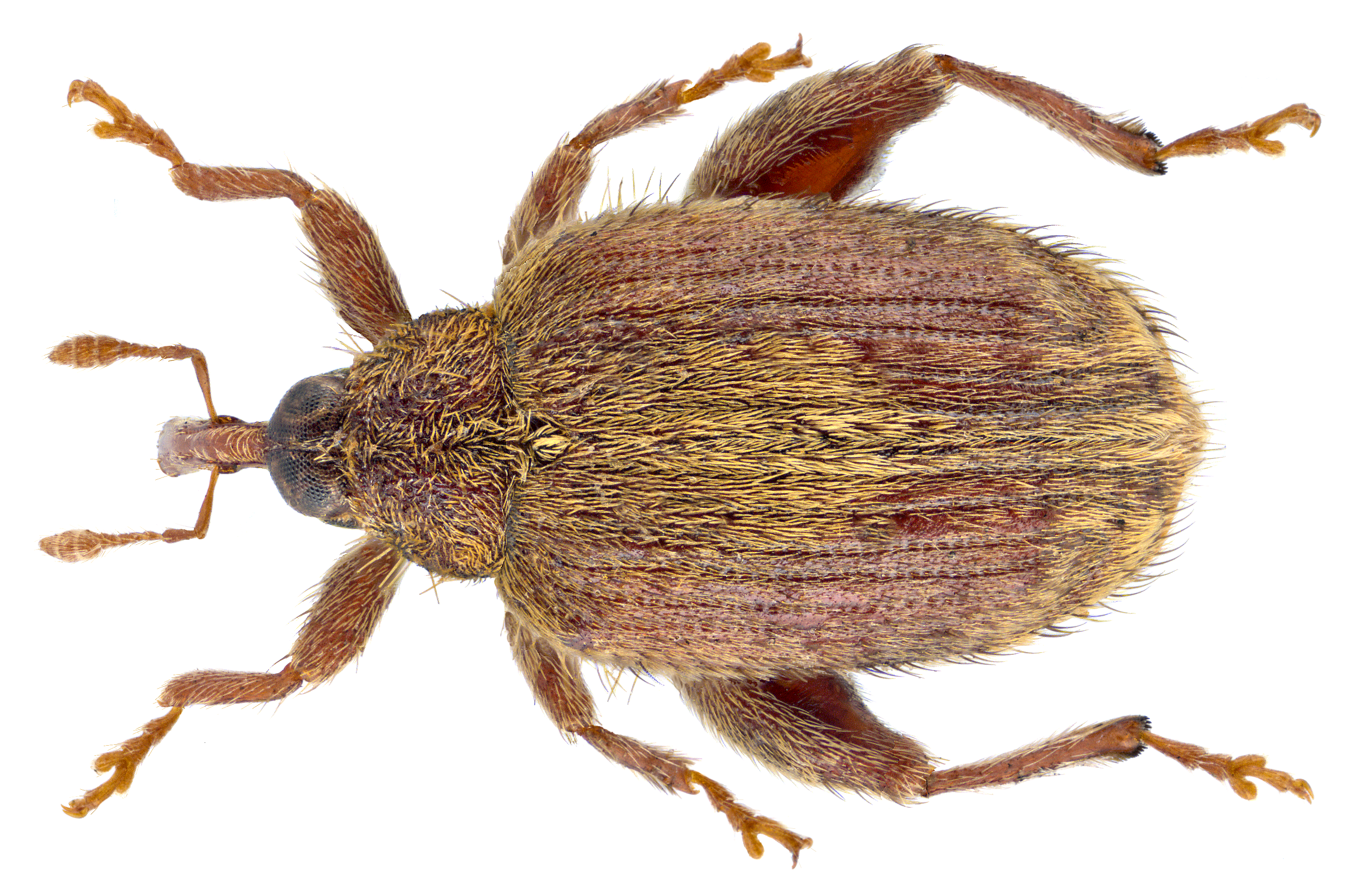 Family: Curculionidae Size: 3,7 mm (2,7-3,7 mm) Origin: Southwest Asia to Europe Ecology: lives on Quercus Location: England, Newbury leg.det. P.Harwood, 1.V.1904 Coll. Oxford University Museum of Natural History Photo: U.Schmidt, 2014